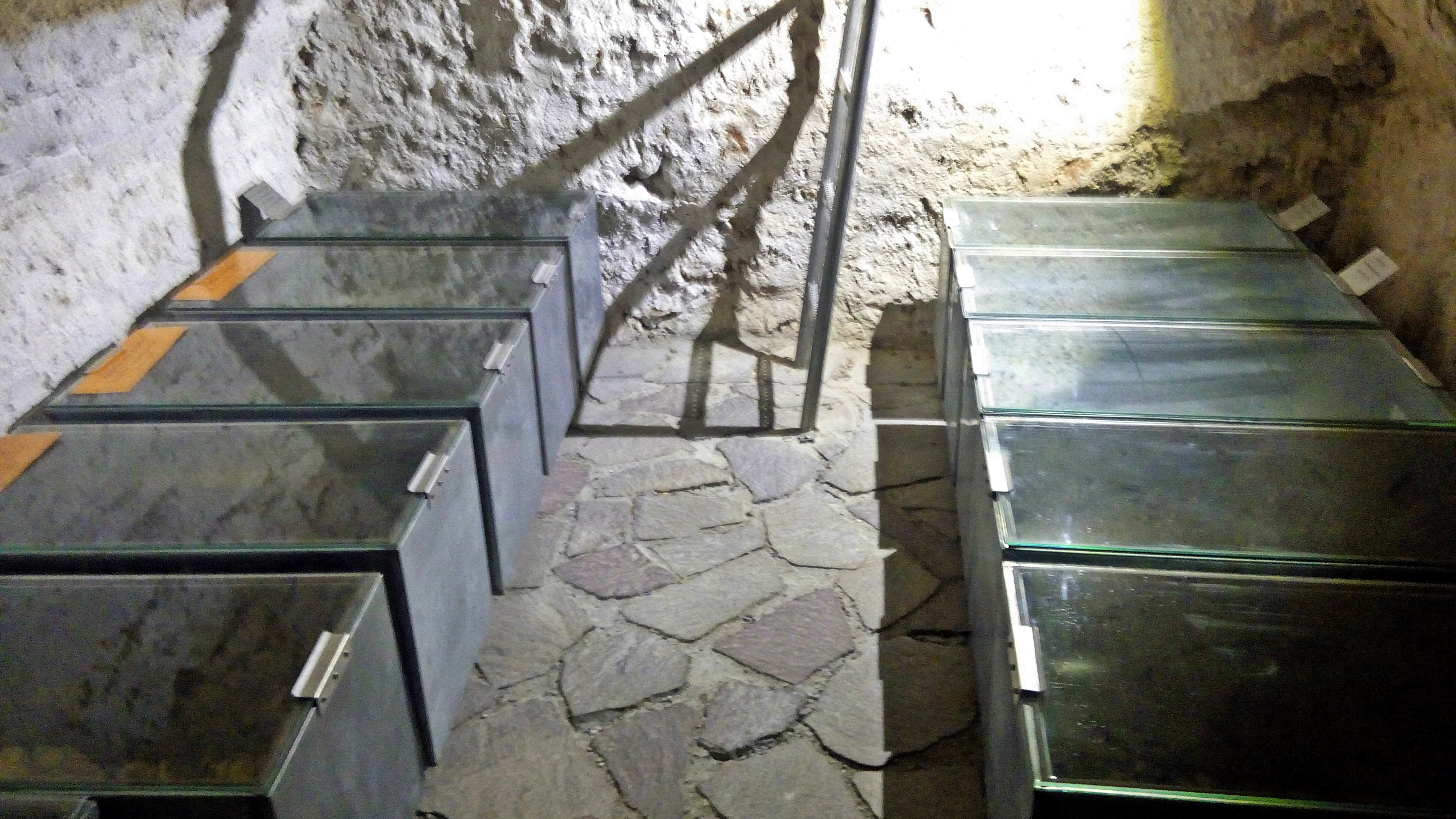 Remigiusberg, Blick in die Gruft